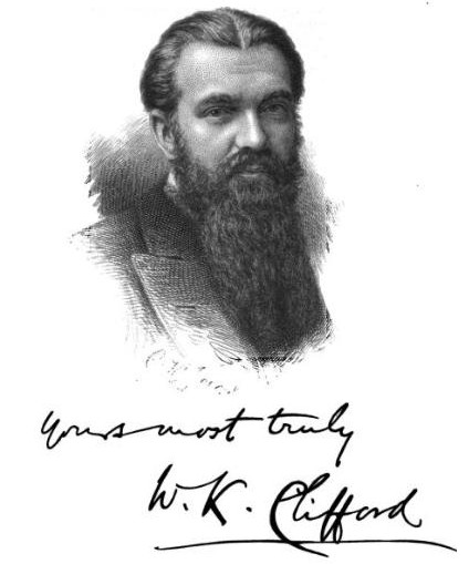 Picture of William Kingdon Clifford, the mathematician